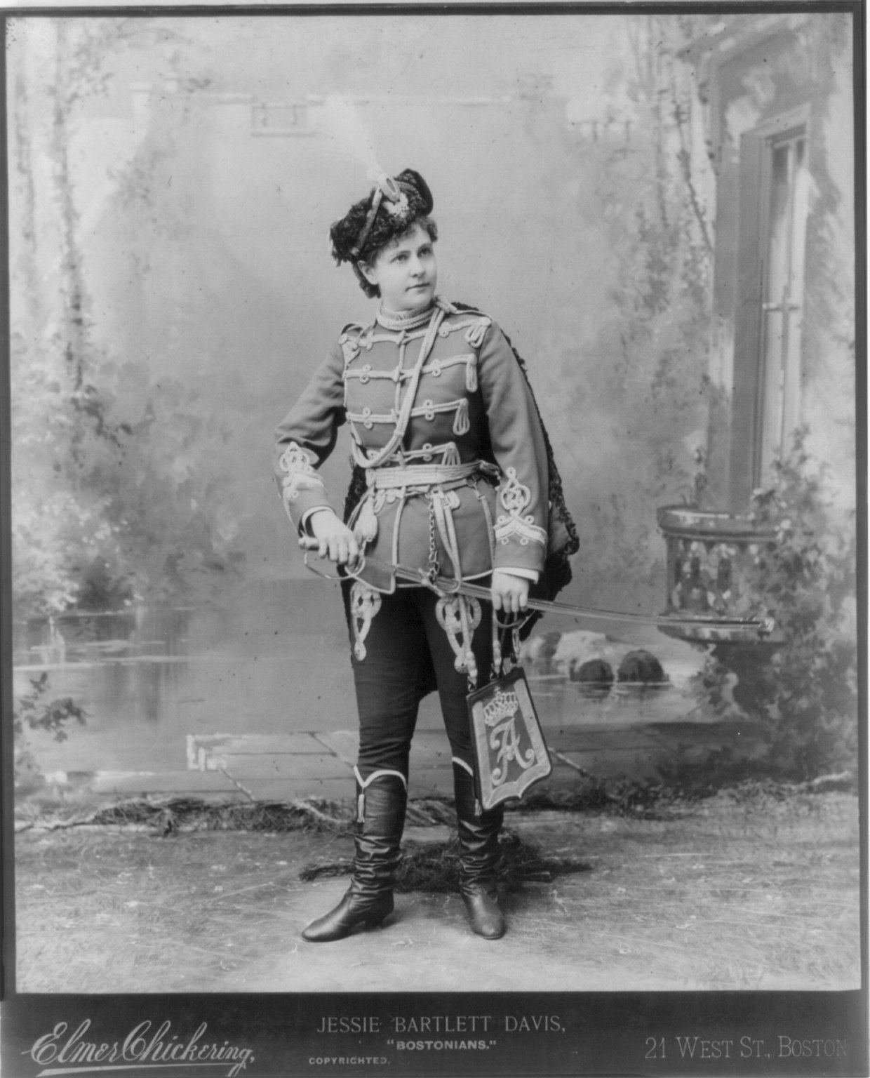 Title: Jessie Bartlett Davis, "Bostonians" Abstract/medium: 1 photographic print.